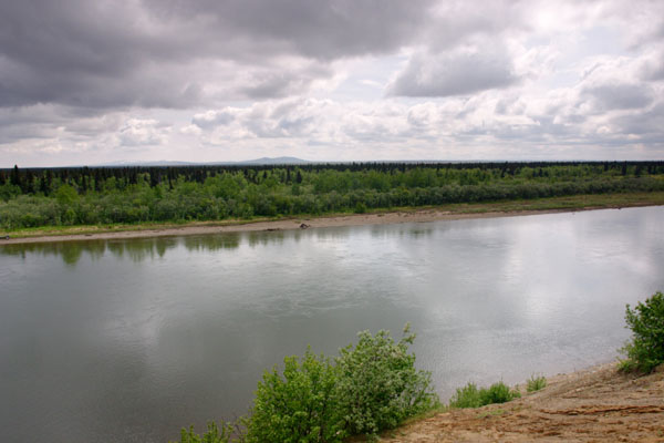 Author: Erin McKittrick Source URL